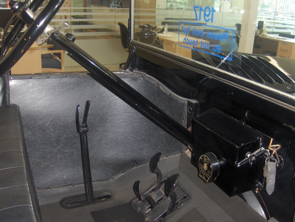 View of the driver's controls, 1917 Model T Аҧсшәа: View of the driver's controls, 1917 Model T